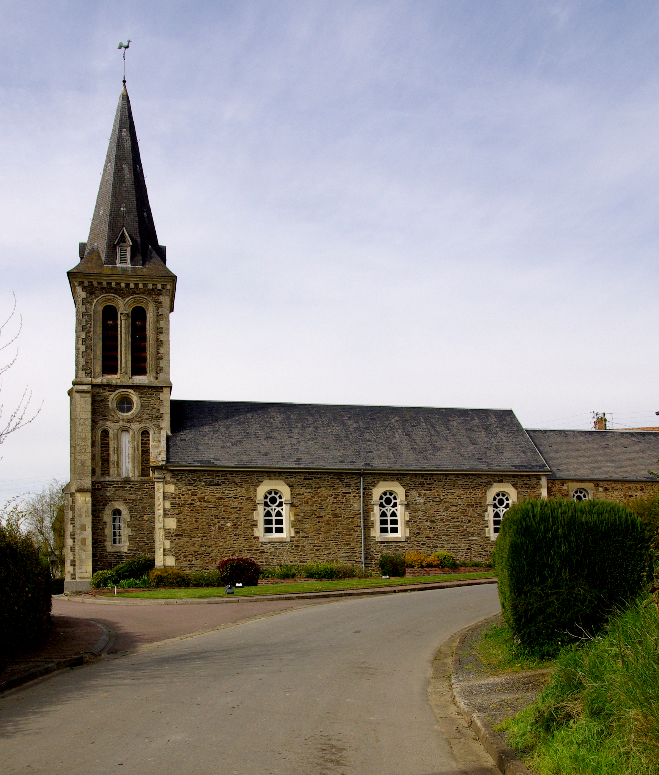 St Pierre'church in Grimbosq Calvados 14 France